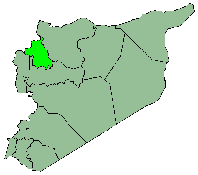 Locator map of the Governorate of Idlib — in northwestern Syria.